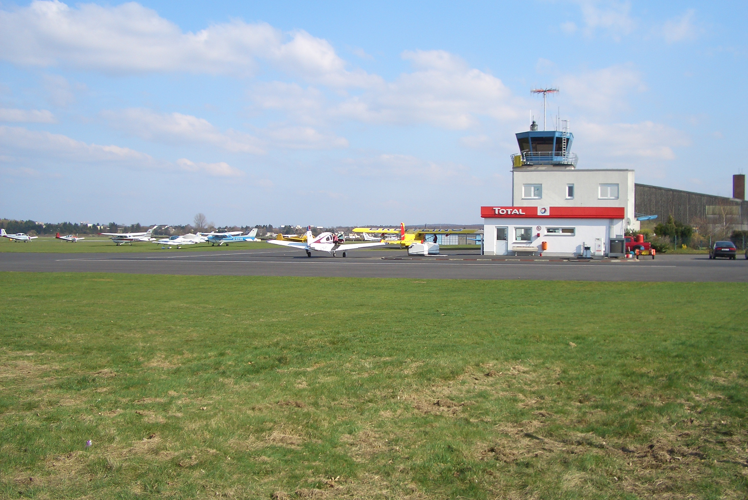 Photo of the filling station of airfield Hangelar in Sankt Augustin-Hangelar, Germany.